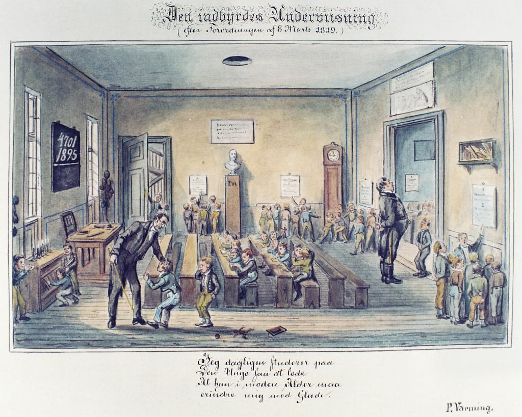 Water drawing of the "Monitorial System" "... an education method that became popular on a global scale during the early 19th century. This method was also known as "mutual instruction" or the "Bell-Lancaster method" after the British educators Dr Andrew Bell and Joseph Lancaster who both independently developed it. ..."